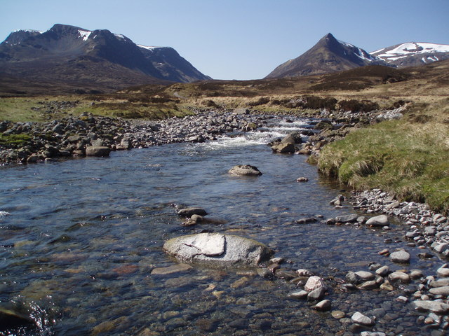 Ben Alder and the Lancet Edge Magnificent highland scenery on a warm spring day, Ben Alder on the left and the Lancet Edge of Geal Charn on the right. Both within the Ben Alder and Aonach Beag SSSI internationally important for upland plant communities.